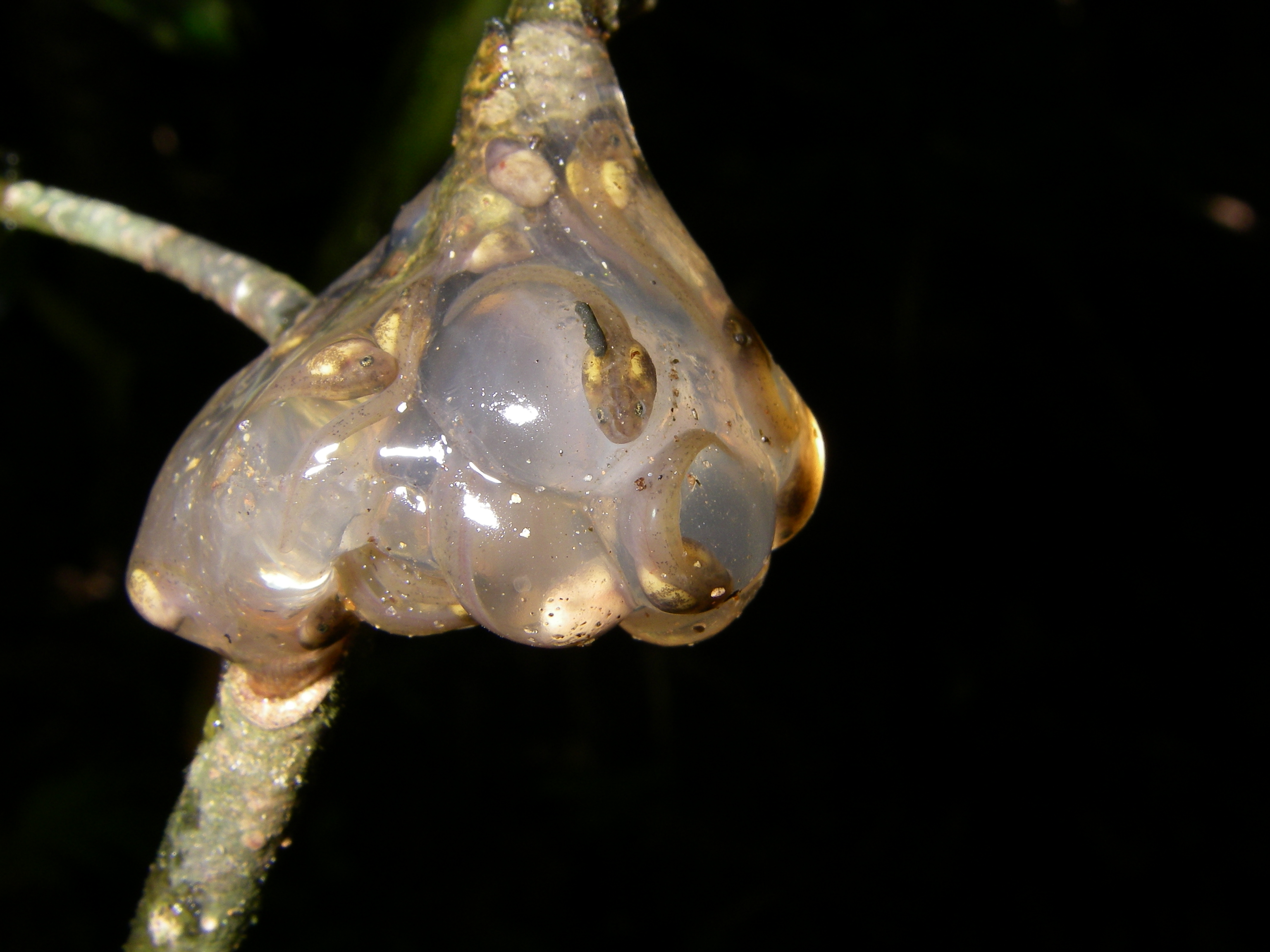 Clutch of Mantidactylus majori attached to a branch above a stream. Tadpoles already well developed. Picture taken in Ranomafana National Park, Madagascar